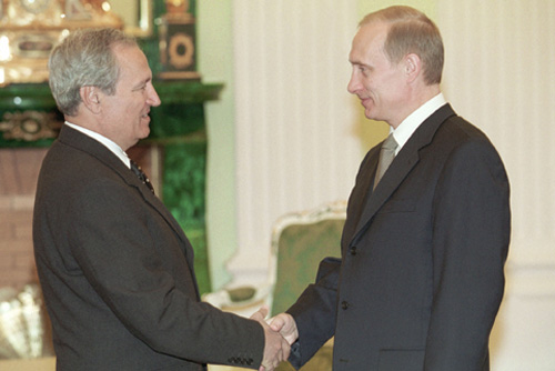 THE KREMLIN, MOSCOW. President Putin with Syrian Foreign Minister Farouk Sharaa.